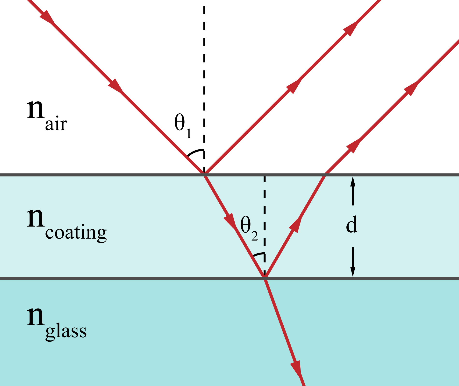 A wave of light reflecting off the upper and lower boundaries of an anti-reflection coating on glass. The reflected waves interfere with one another.